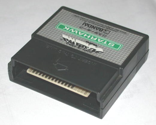 Starhawk cart